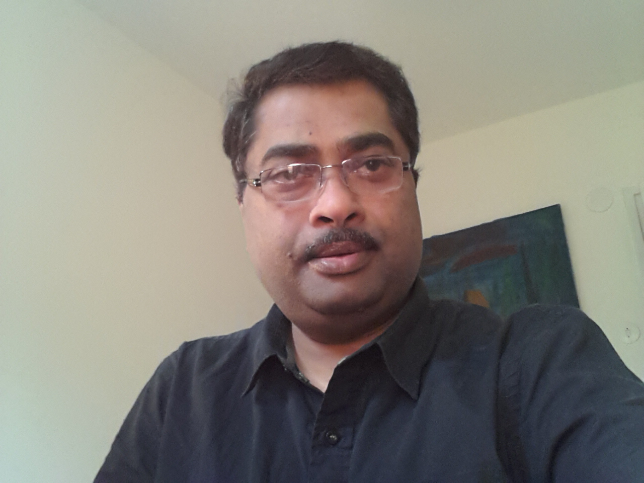 Recent photograph of Sanal Edamaruku